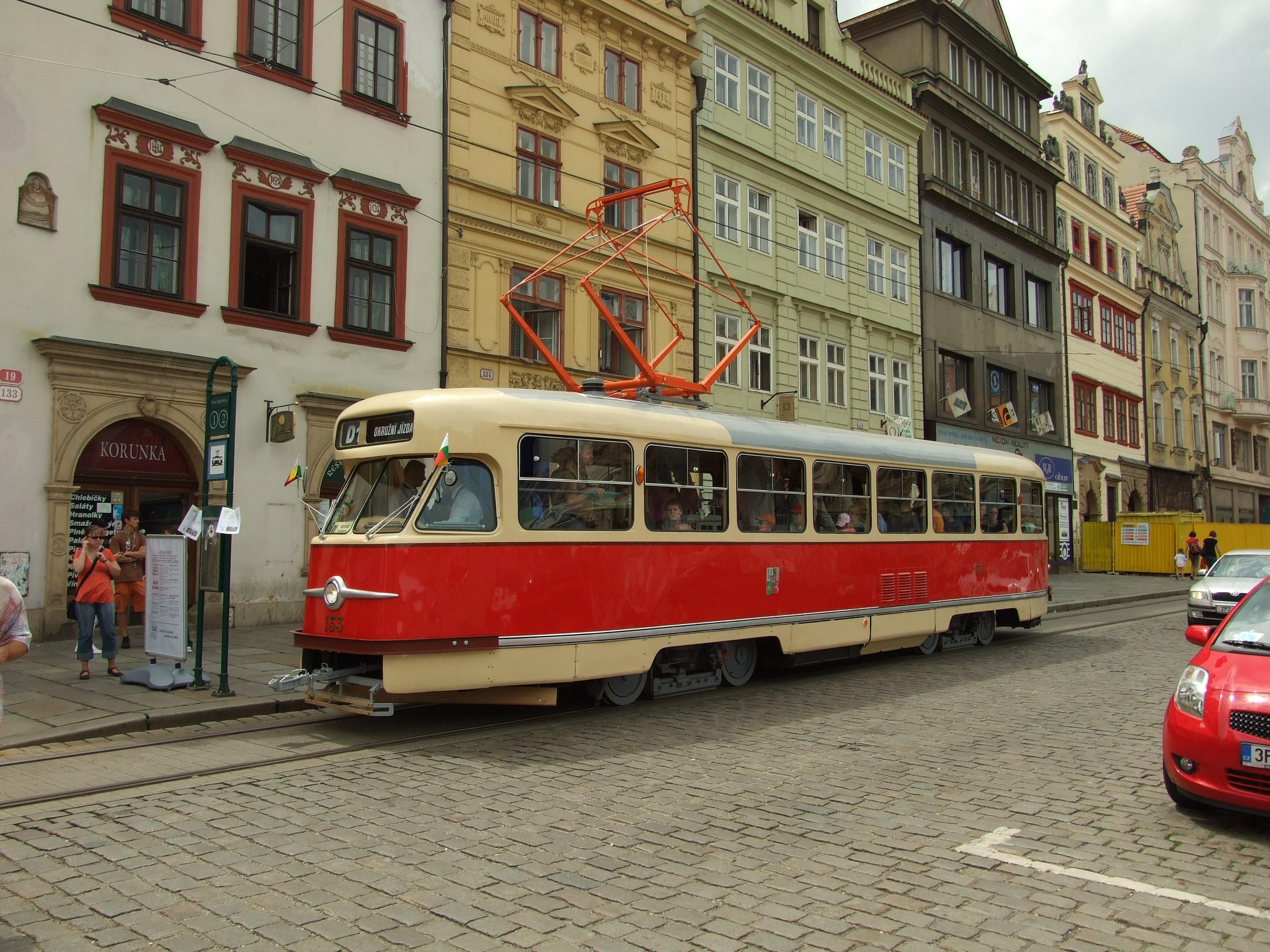 110th anniversary of public transport in Plzeň, Plzeň Region, CZhelp